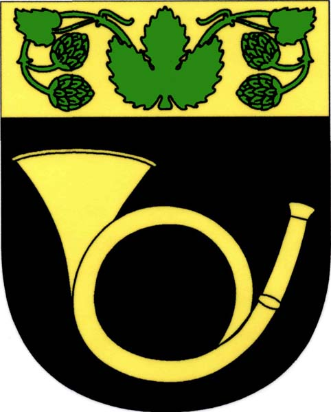 Coat of amrs of Řevničov , District Rakovník, Czech Republic